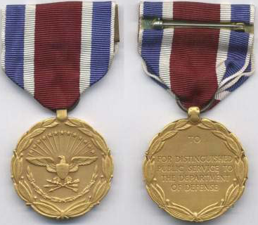 US Department of Defense Distinguished Public Service Award medal